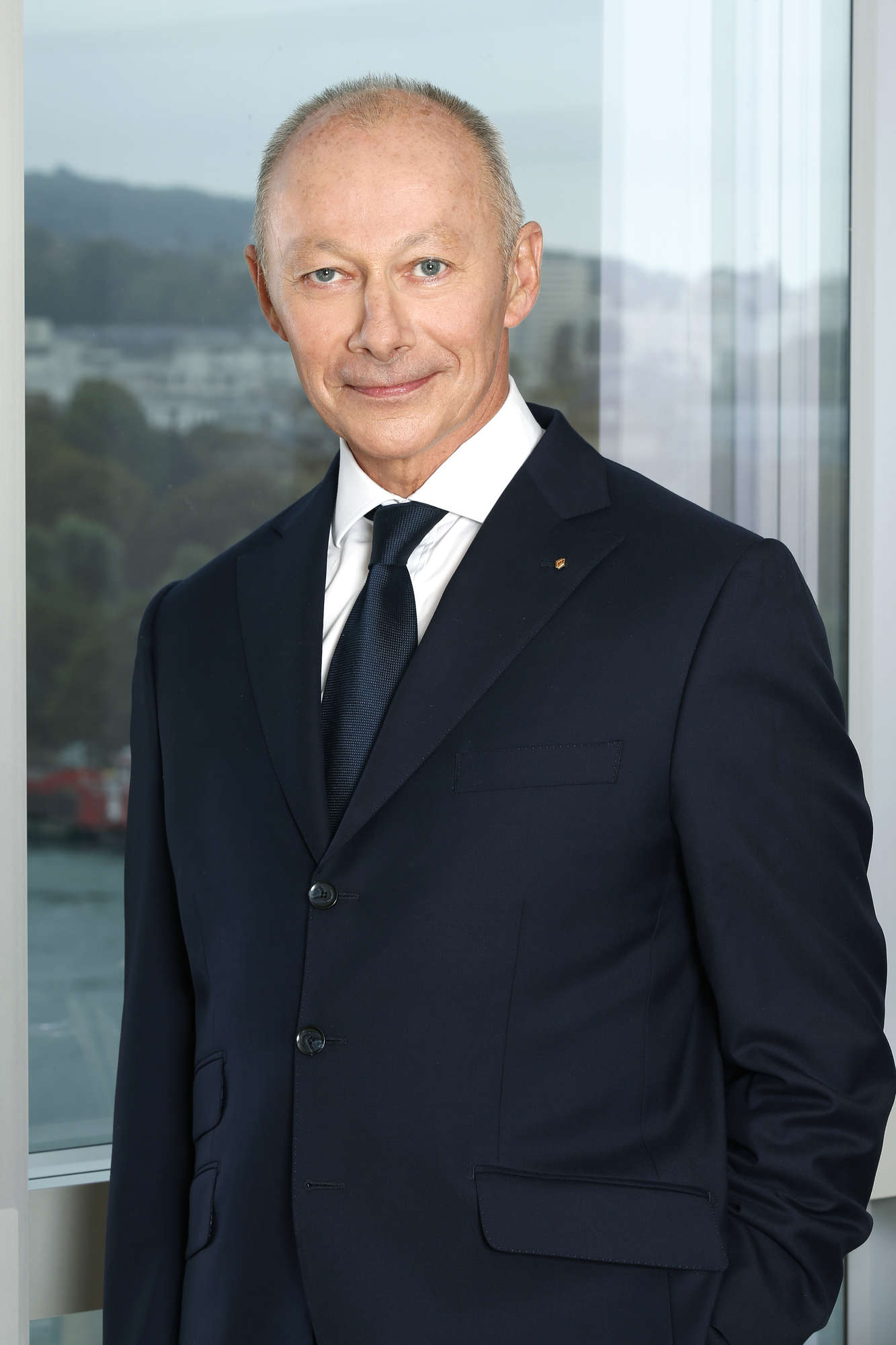 Thierry Bolloré, Deputy Chief Executive Officer Groupe Renault